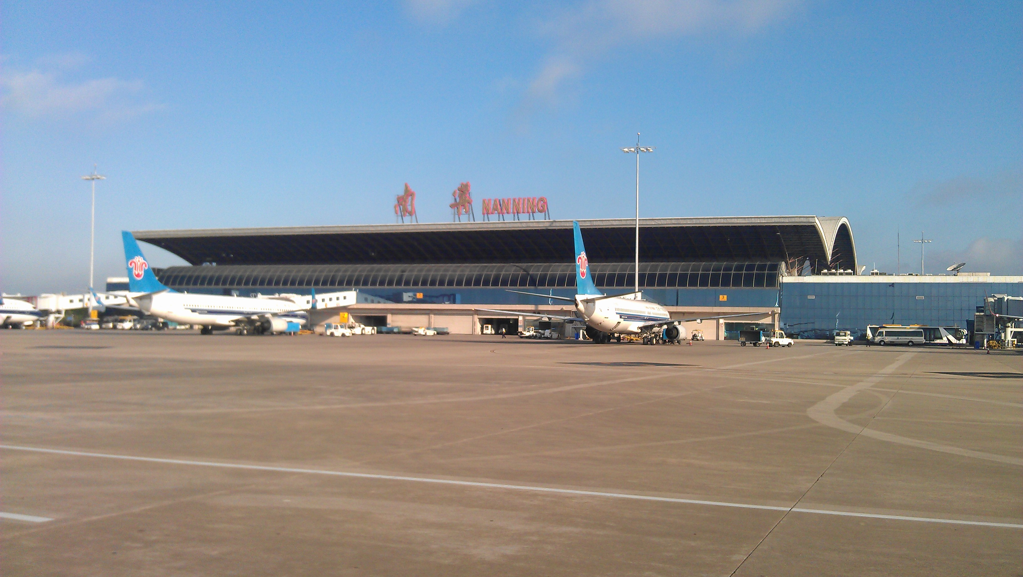 Exterior of Nanning Wuxu International Airport.